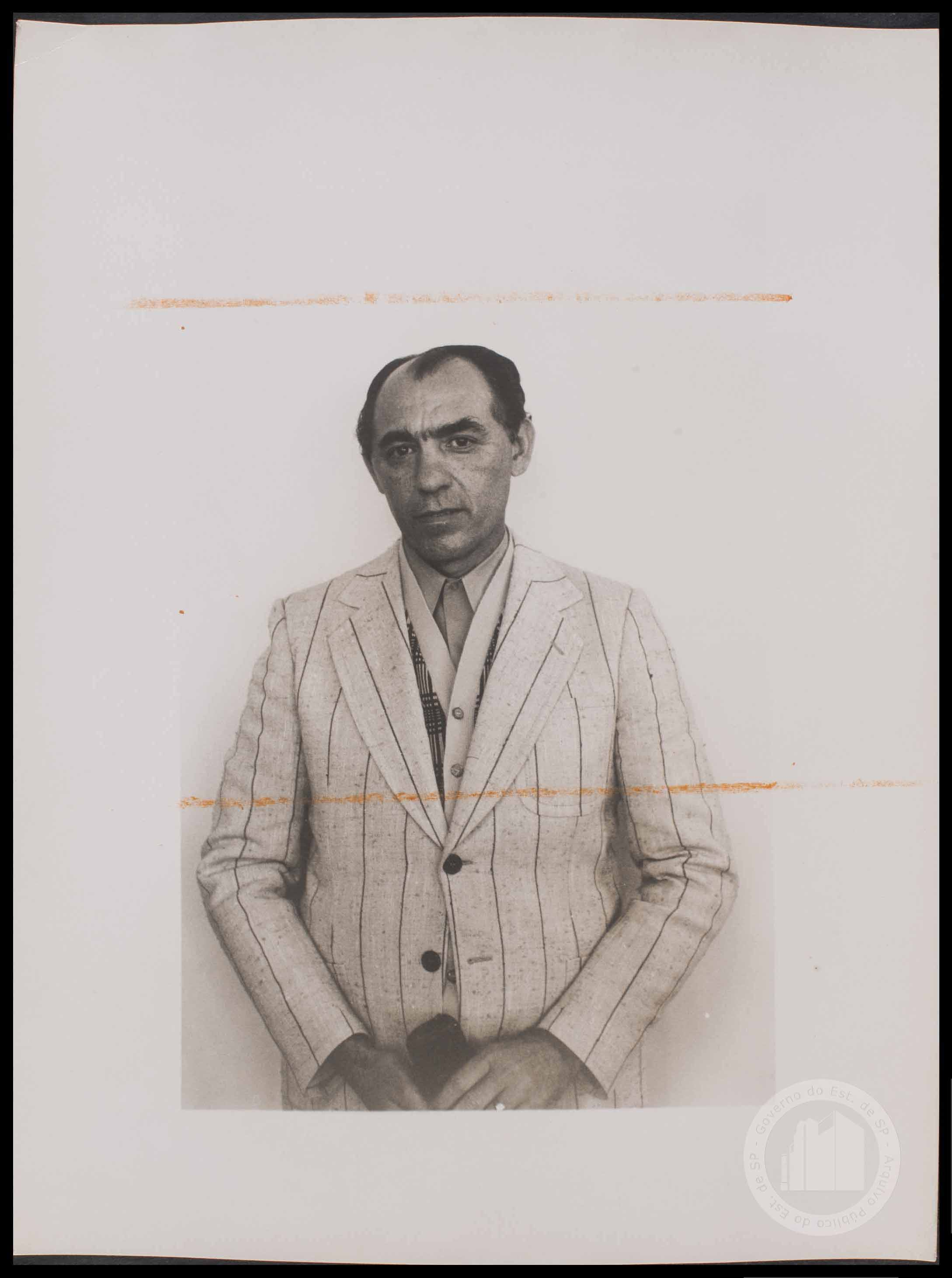 O então vereador Altino Lima; Imagem do Acervo Iconográfico do Arquivo Público do Estado de São Paulo, código BR SP APESP ICO ASP AMP 021 073